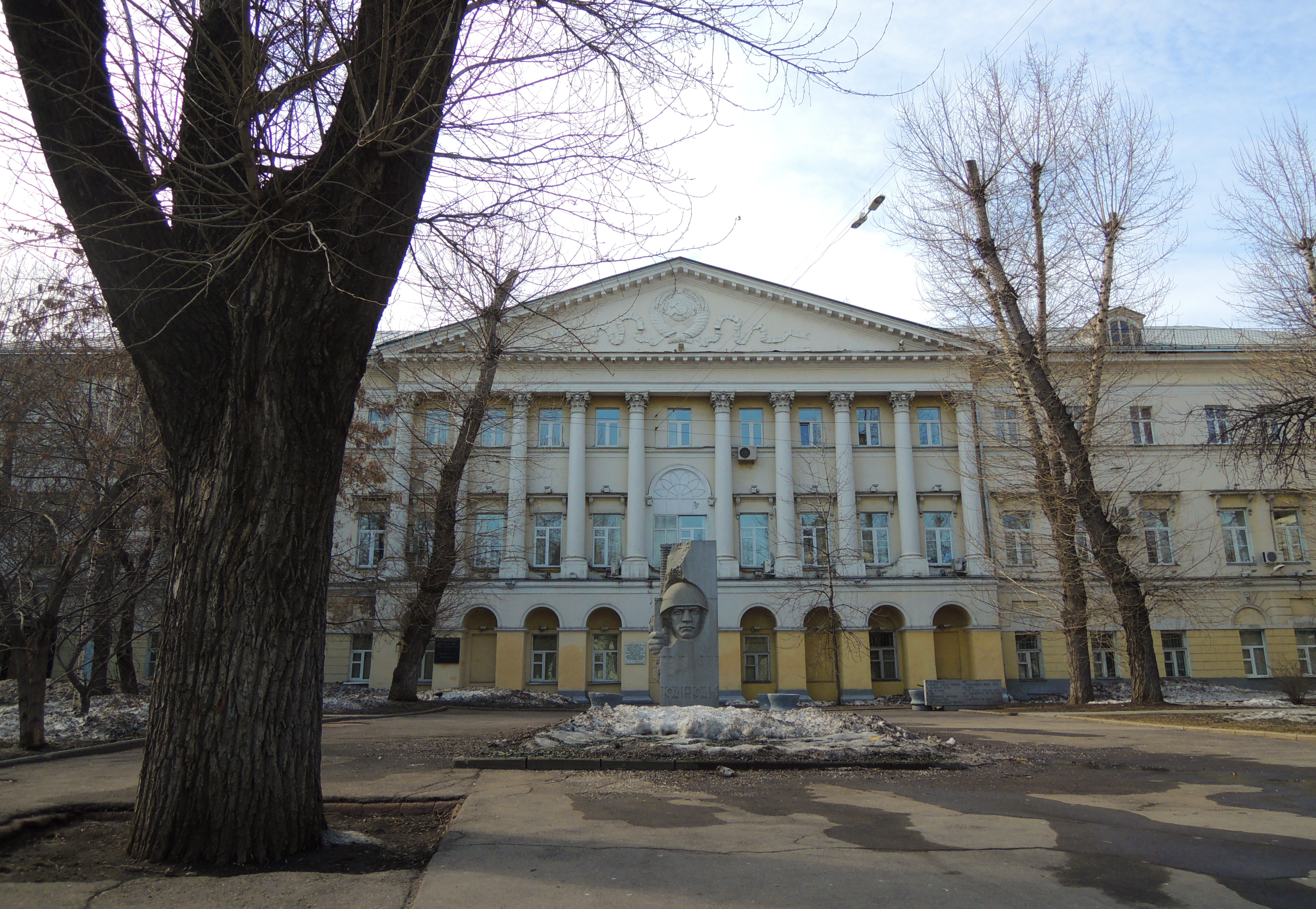 Moscow State Linguistic University